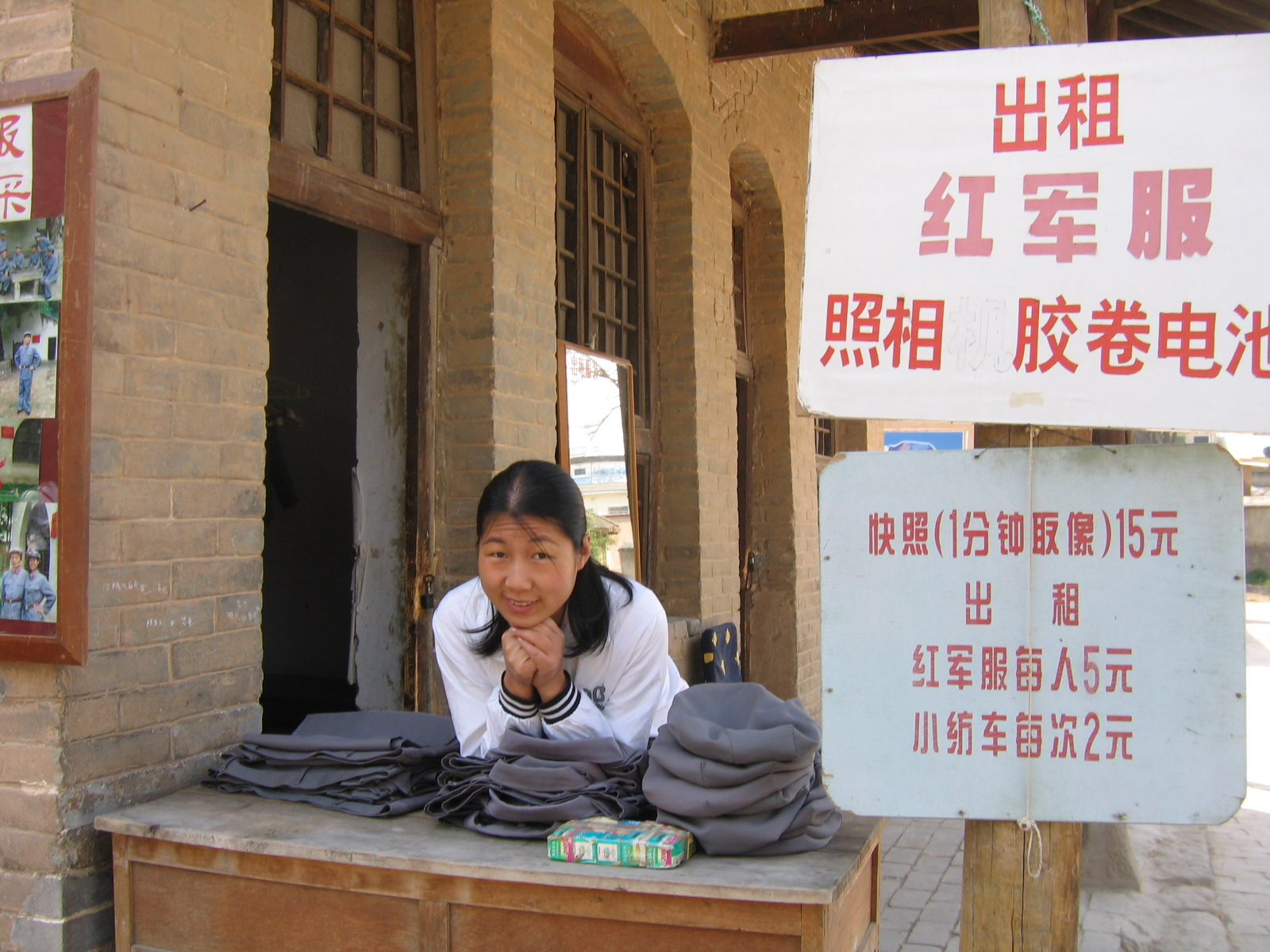 Yanan Shaanxi maoist city 陕西省延安市 Renting Red Army garment for pictures